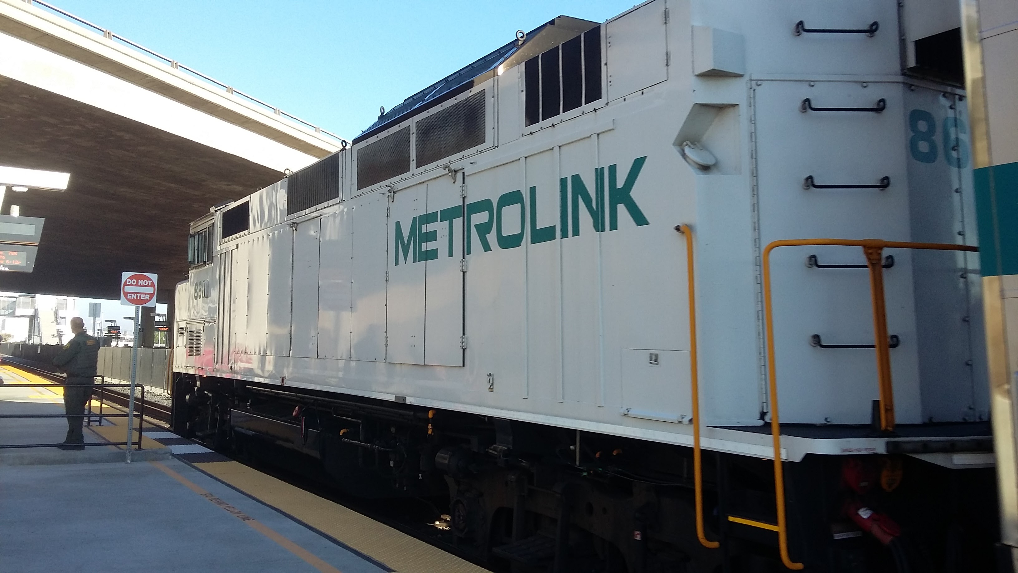 Metrolink locomotive 868, ARTIC